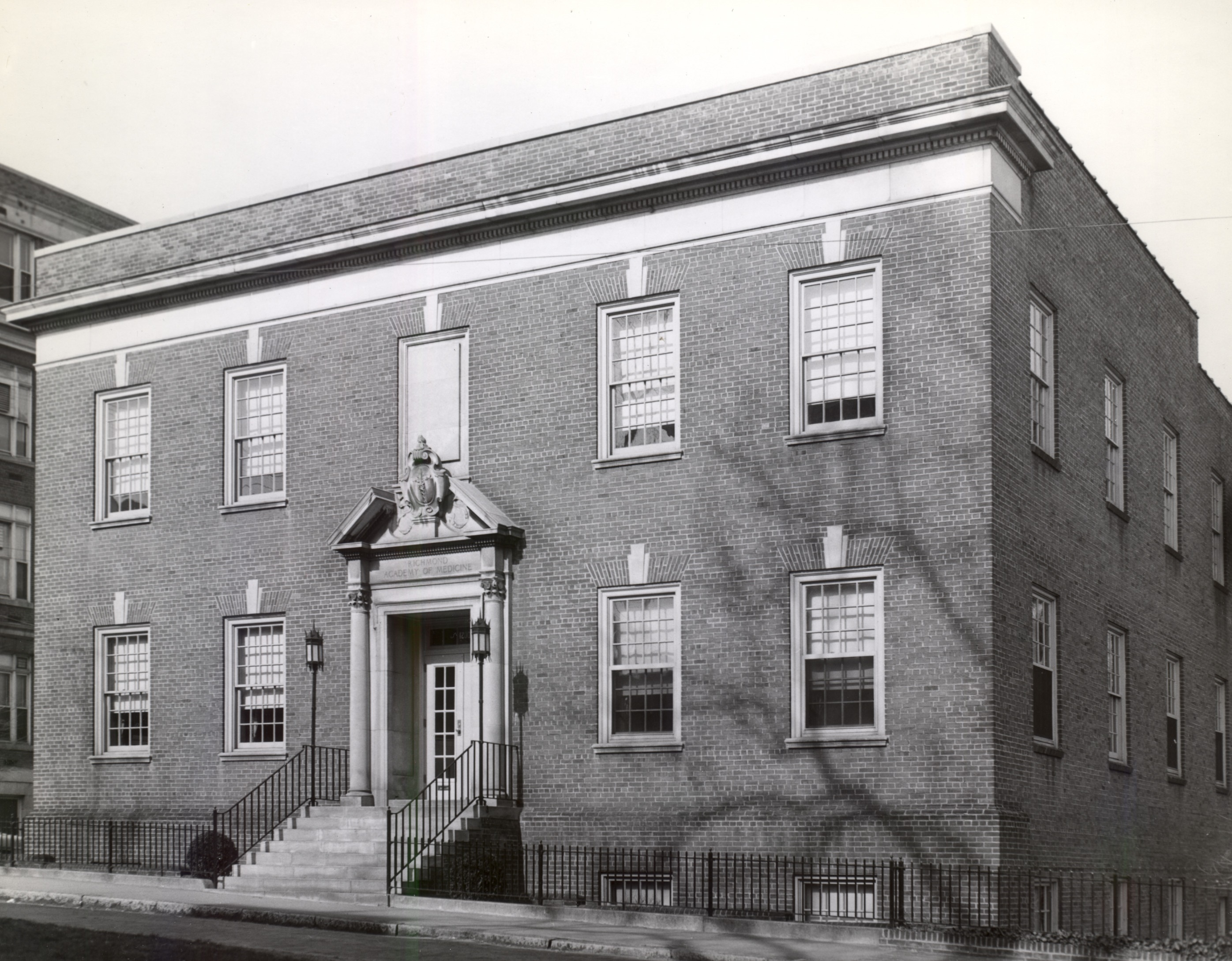 Former home of Richmond Academy of Medicine